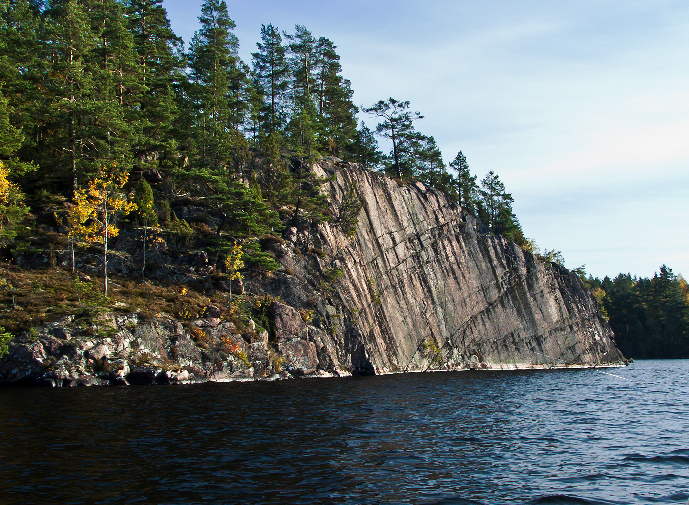 Granite cliff at lake Sommen, Southern Swedish highlands. Pines and birches growing on top of the cliff. The cliff is near vertical.